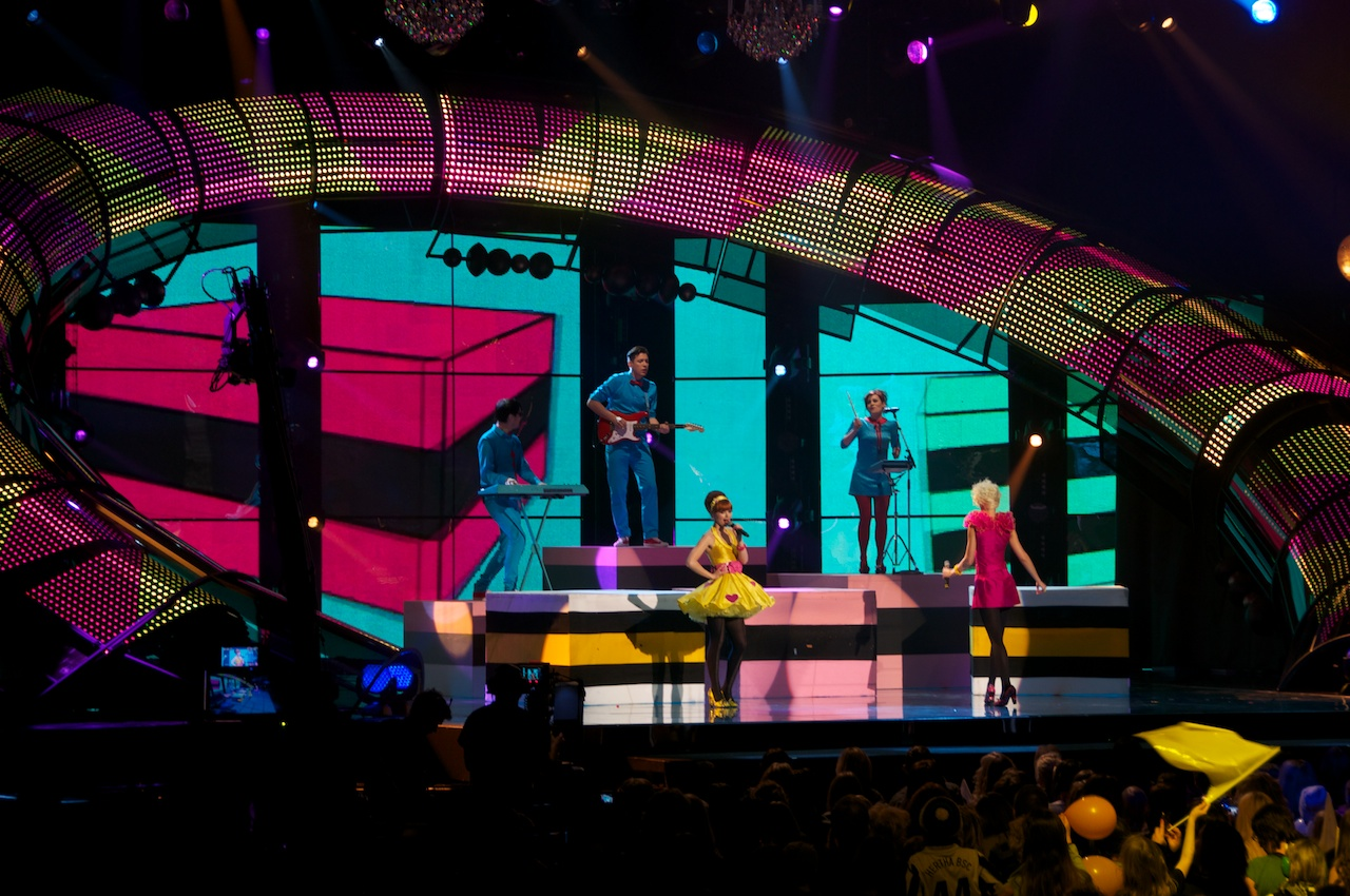 Le Kid performing at one of the semi-finals for Melodifestivalen 2011